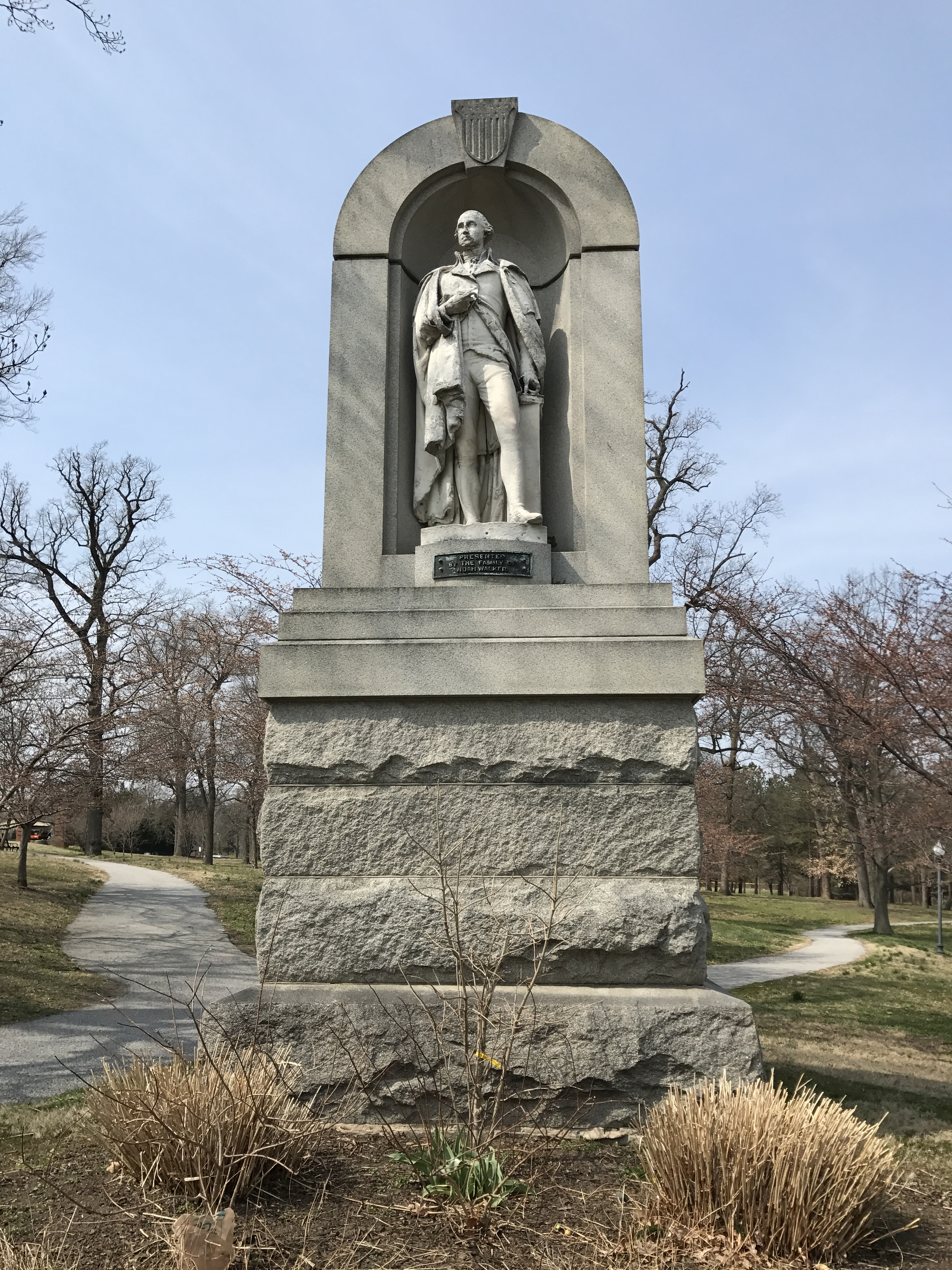 Photograph by Eli Pousson, 2017 March 24.